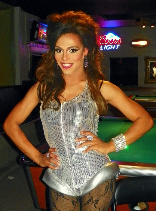 Shangela at Charlie's Austin in Austin, Texas, United States.